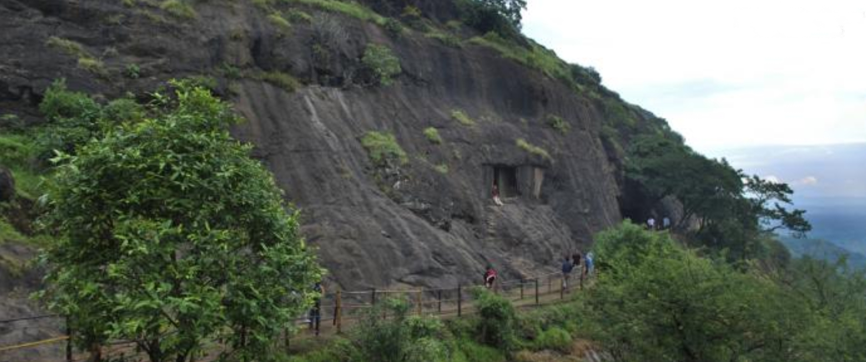 Ghoradeshwar (Shelarwadi) Leni